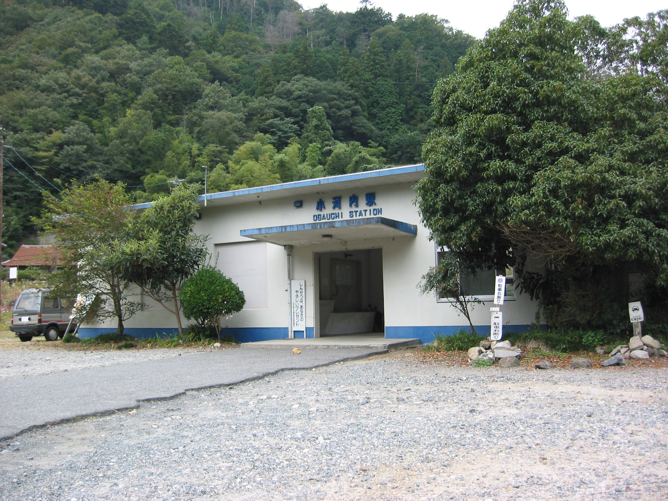 The building of Ogauchi Station, West Japan Railway Company Kabe Line (before abolished)